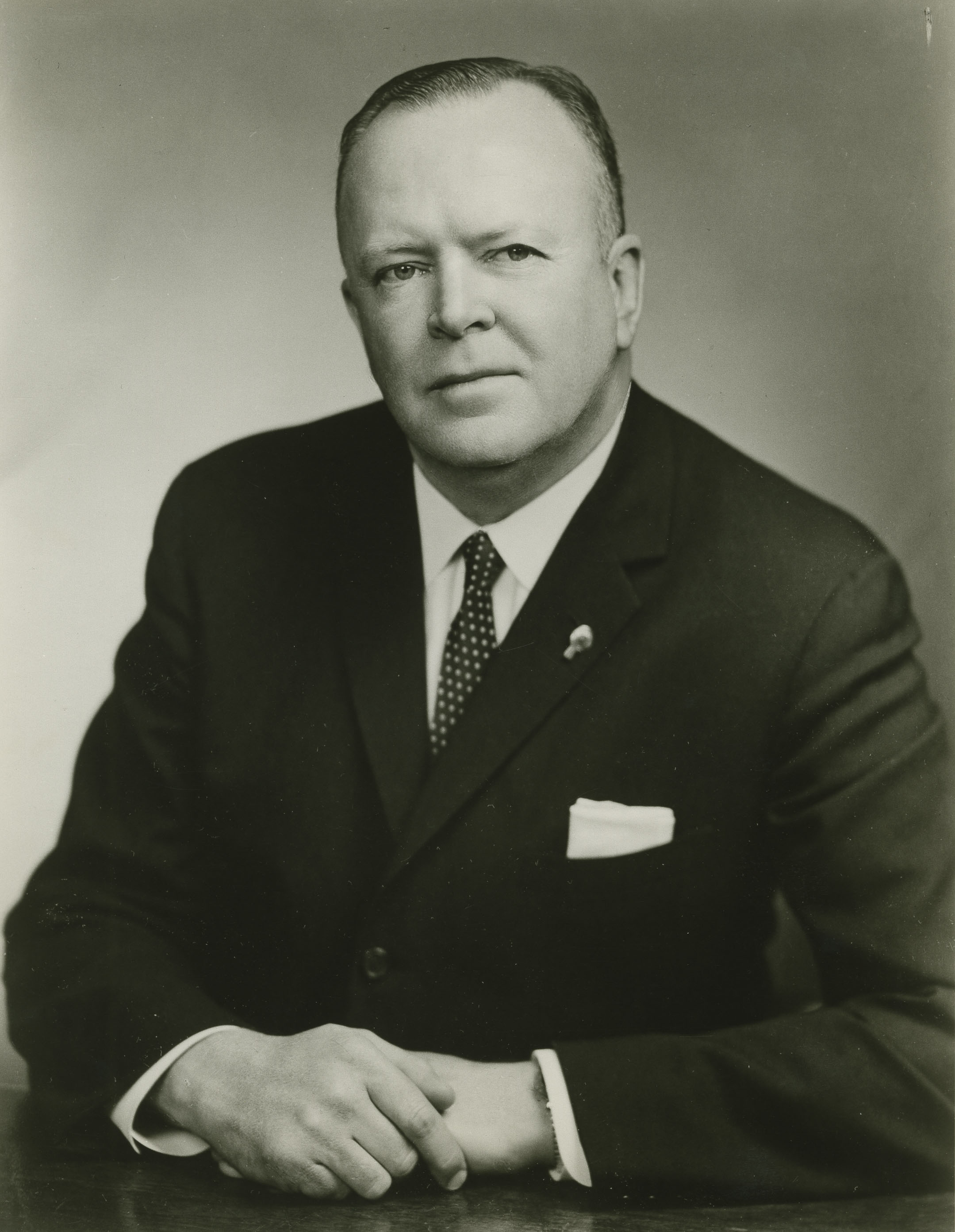 A portrait of Robert Hemphill, circa 1960.